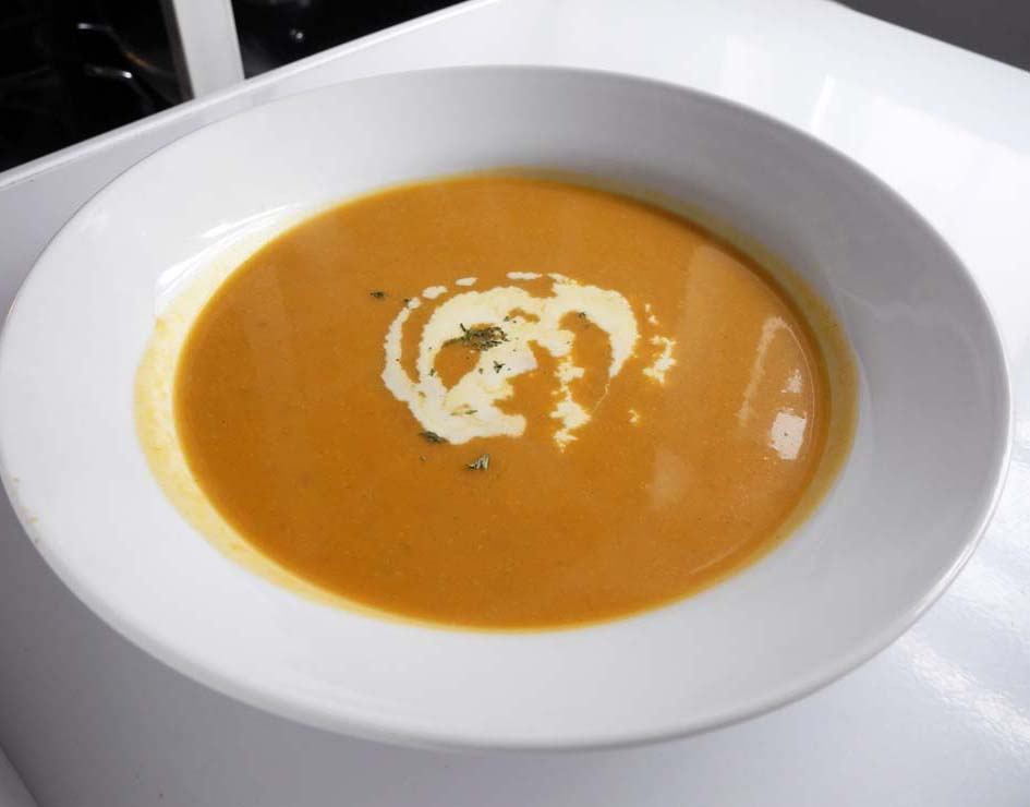 This is a photograph of a garnished ground nut or peanut soup